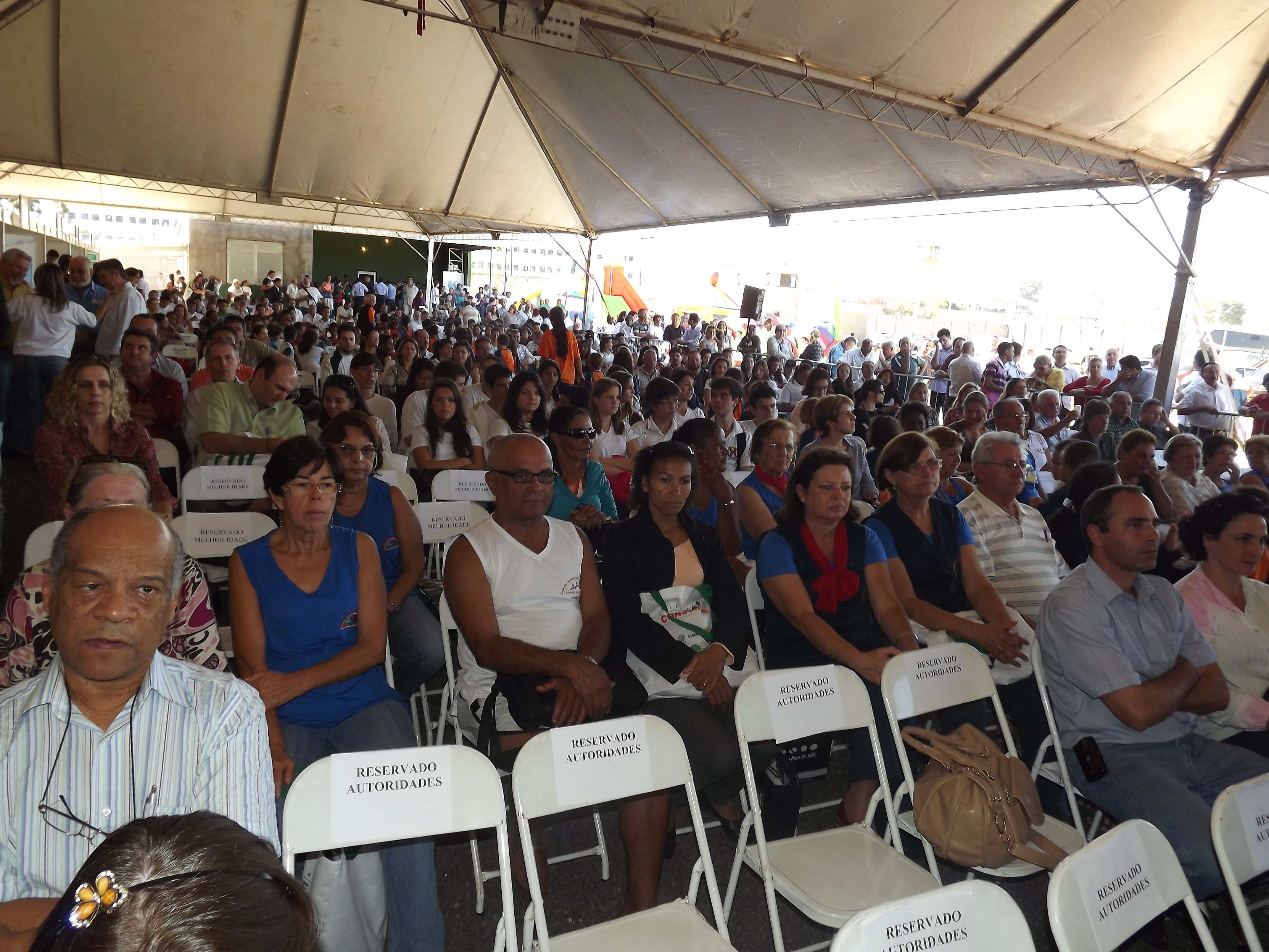 Population of Hortolândia, São Paulo, Brazil.